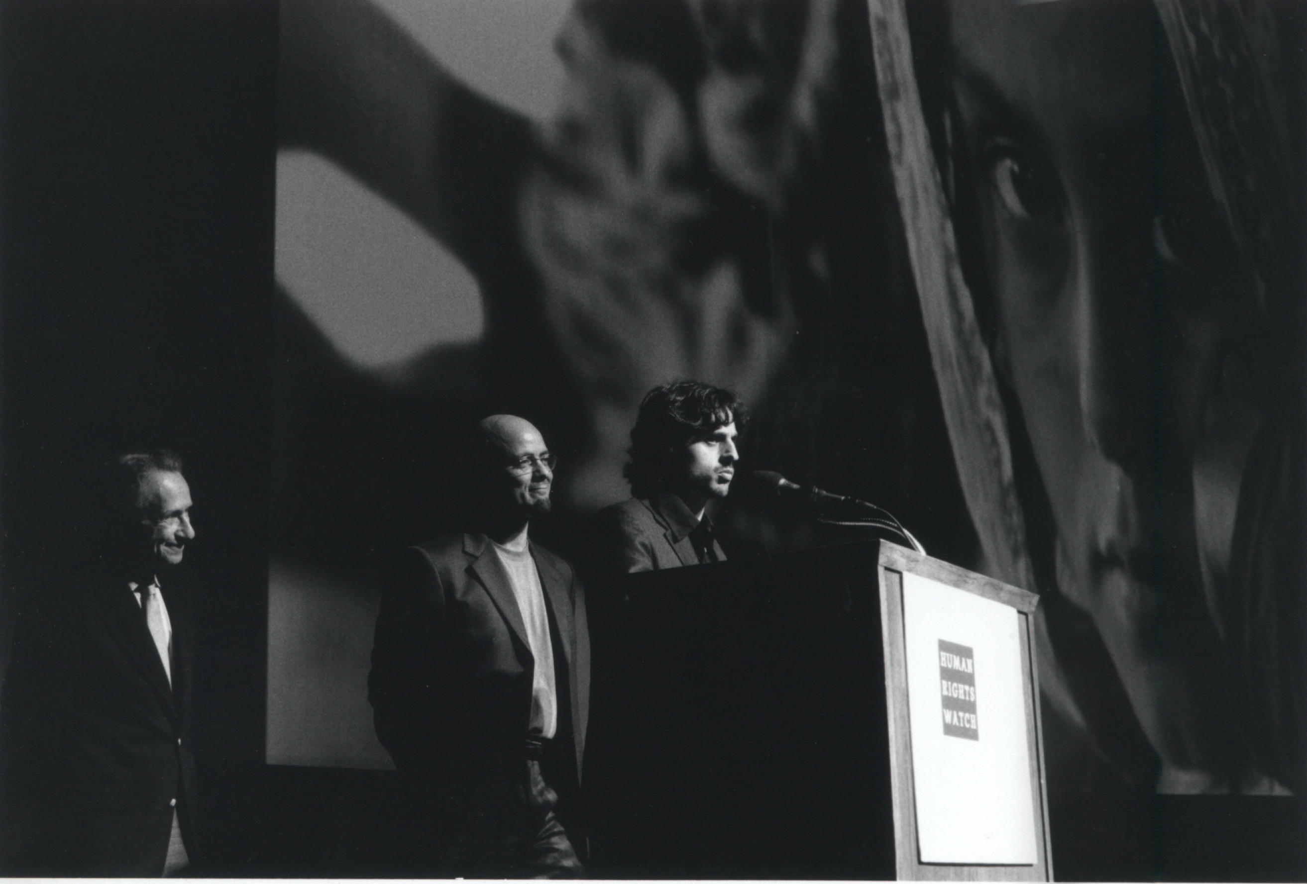 Human Rights Watch Nestor Almendros Award for courage and commitment in human rights filmmaking presented to Giuseppe Petitto by Arthur Penn. Lincoln Centre, New York, June 2001